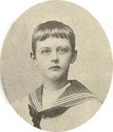 Duke Paul Frederick of Mecklenburg (Given names: Paul Fredrick Charles Alexander Michael Hugo; 12 May 1882 - 21 May 1904) was a member of the House of Mecklenburg-Schwerin and a German solider and sailor.